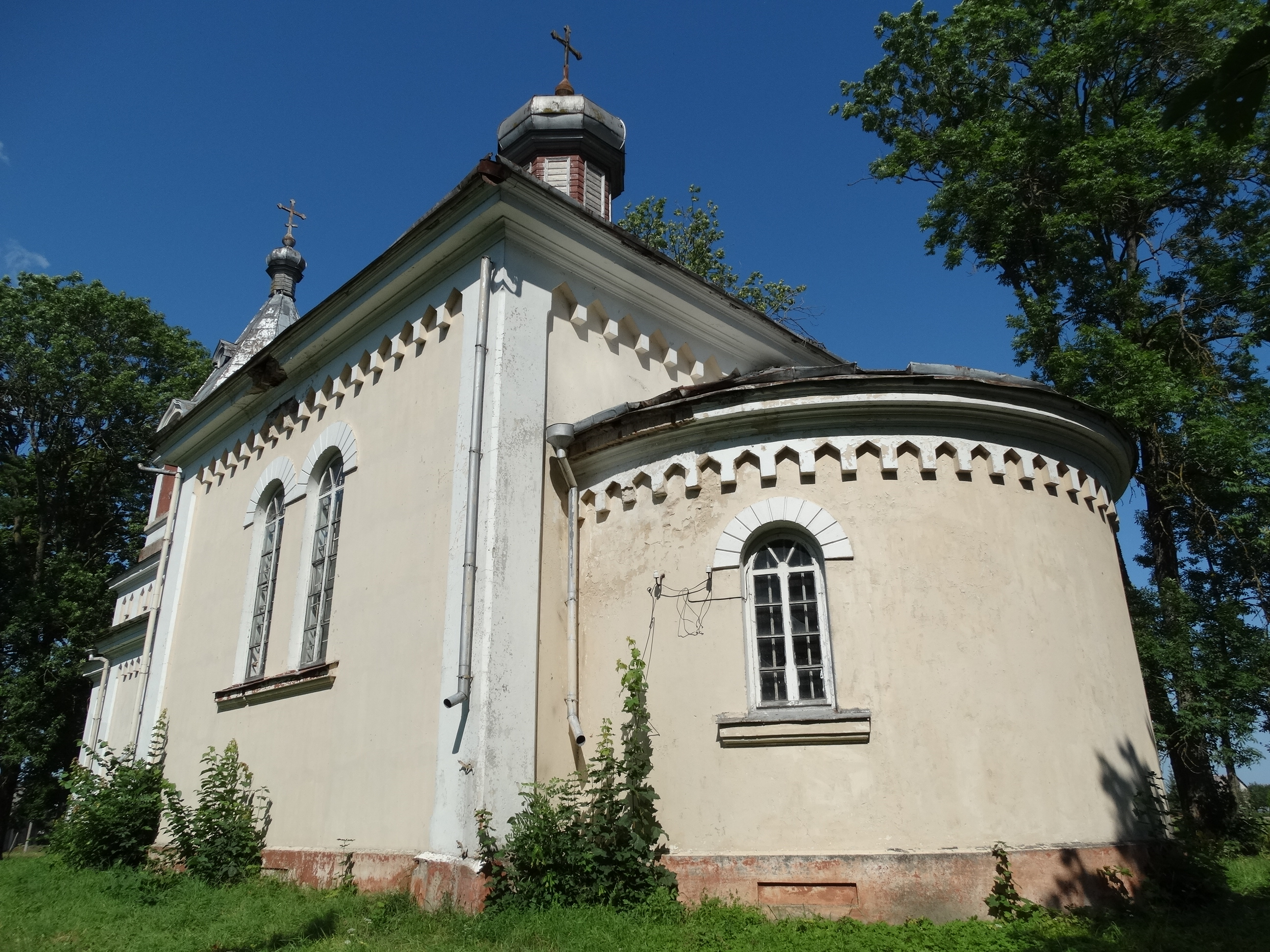 Russian Orthodox Church, Inturkė, Molėtai district, Lithuania